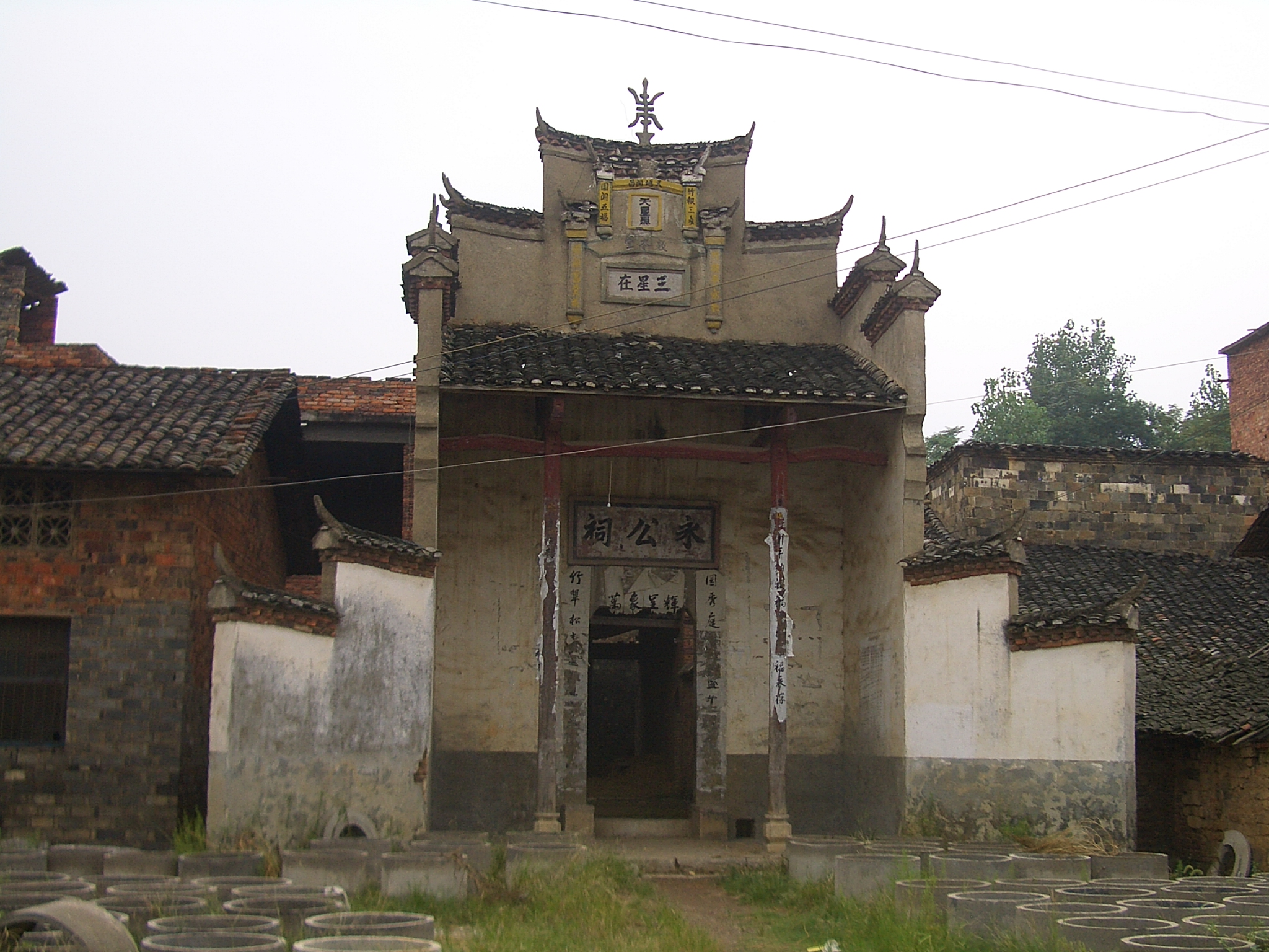 A small shrine (signed 永公祠, "Yong gong ci") in a village in Yangxin county, a few km to the north of the G316/G106, on the way to Longgang Zhen junction. The character on the top is 寿.